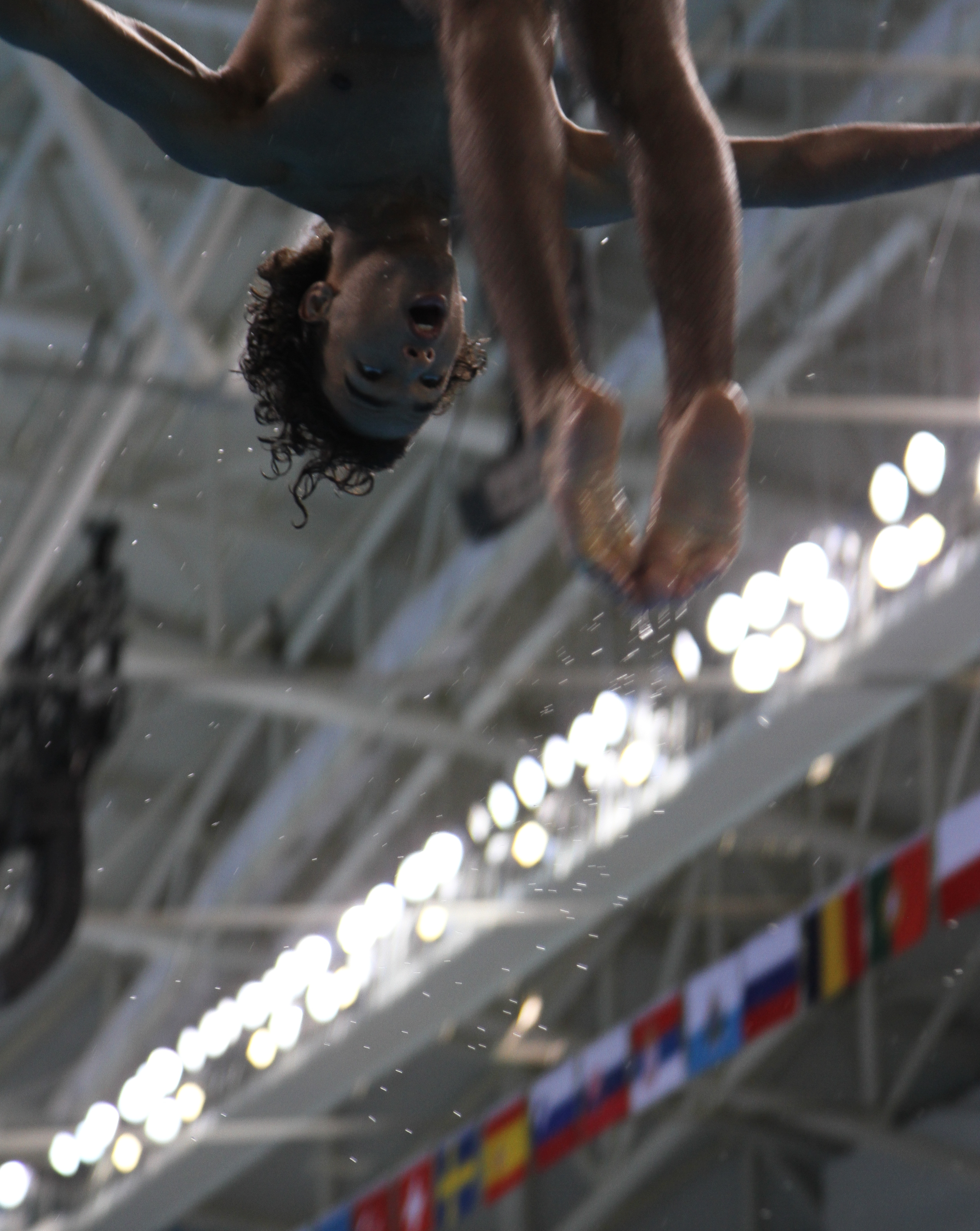 Andreas Larsen at the European Games in Baku 2015 from the 3m diving events